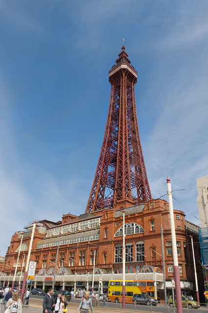 Blackpool Tower, Blackpool, Lancashire, England. This picture shows the tower and its attached buildings, which are Grade I listed buildings.